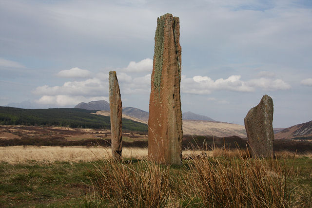 Standing stones on Machrie Moor To the right of the largest stone is Goat Fell, Arran's highest mountain.